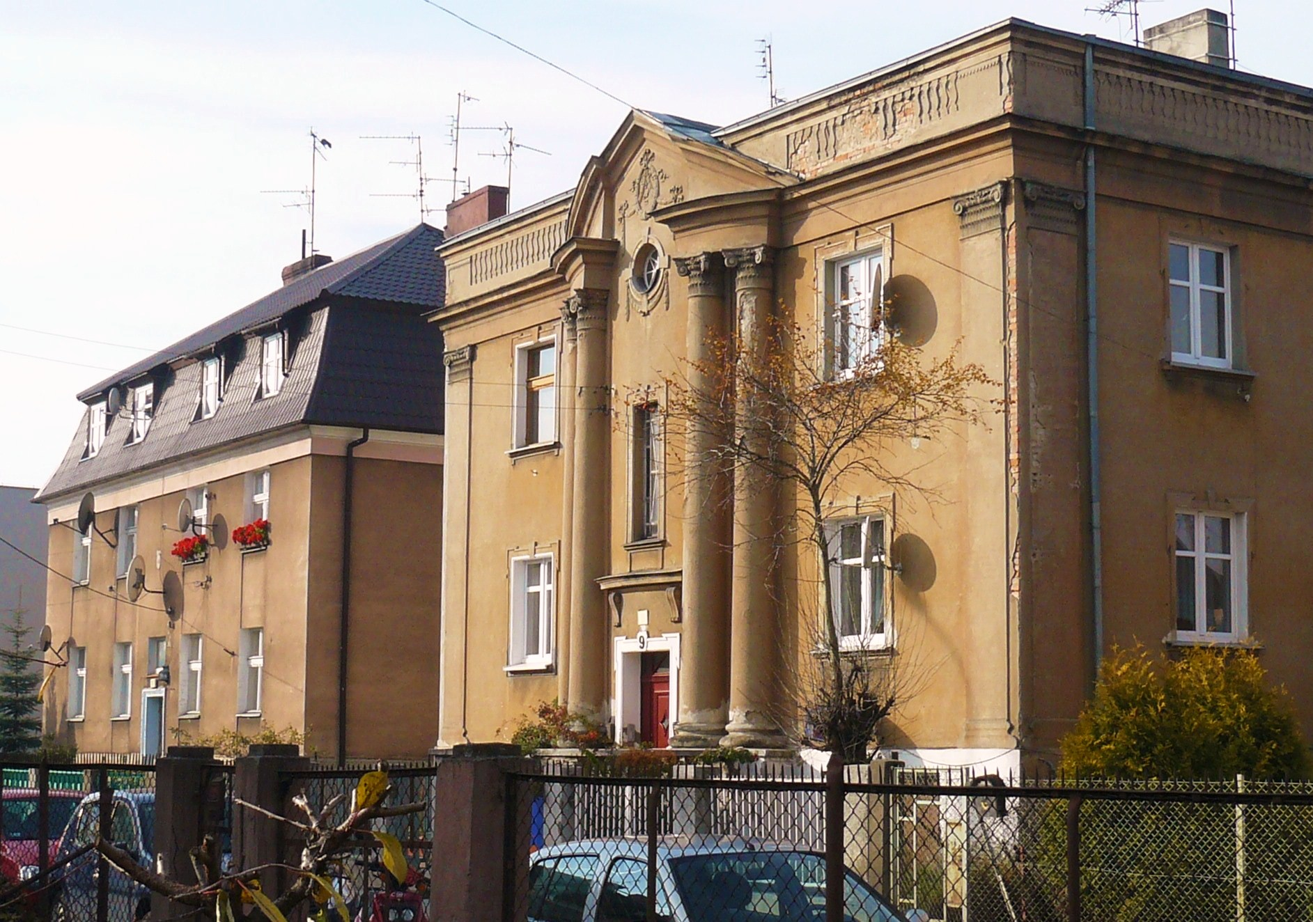 Poznan, Kostrzyńska Street, Warszawskie Distr.